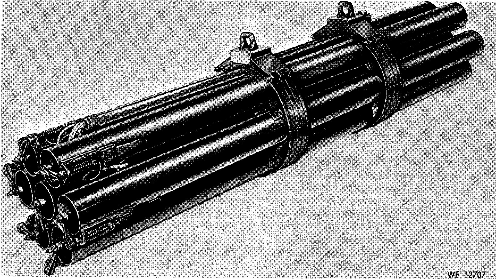 Drawing of XM158 Rocket Pod